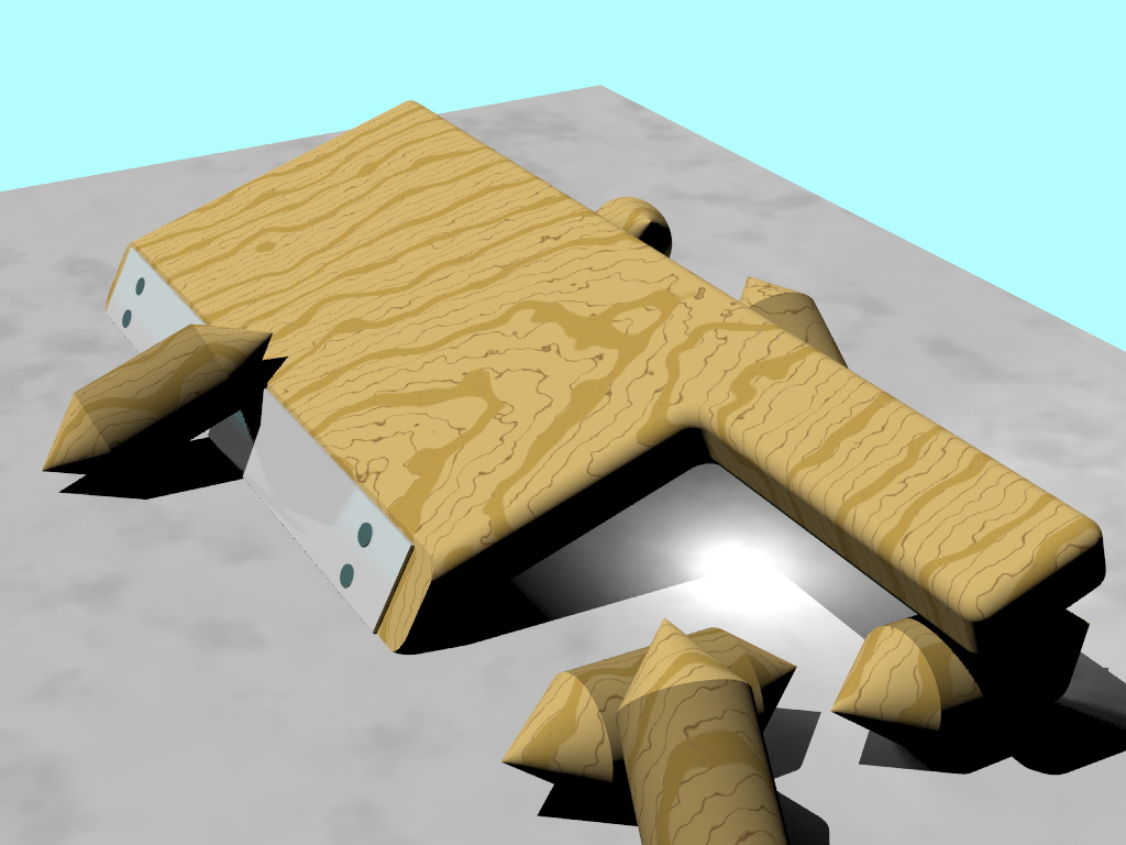 Racquet for Na špačka team game illustration.